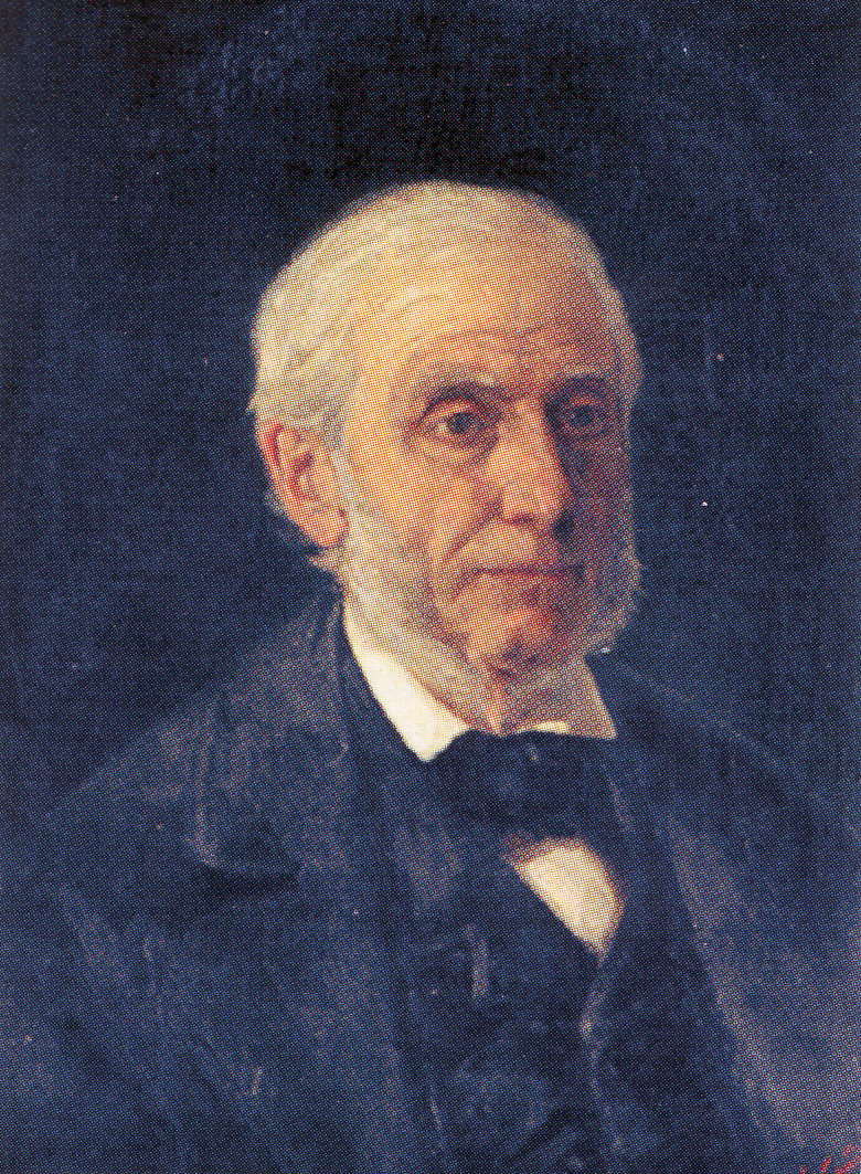 Portrait of Giuseppe Zurria, work of Antonino Gandolfo